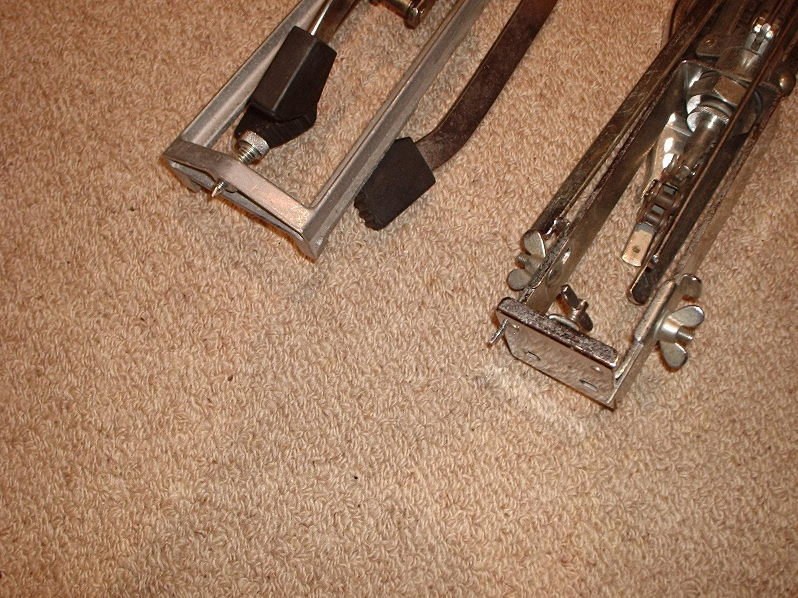 Retractible spikes of two hi-hat stands, extended. Left is an old Tama Swingstar stand, right and below a Speed Pedal stand.